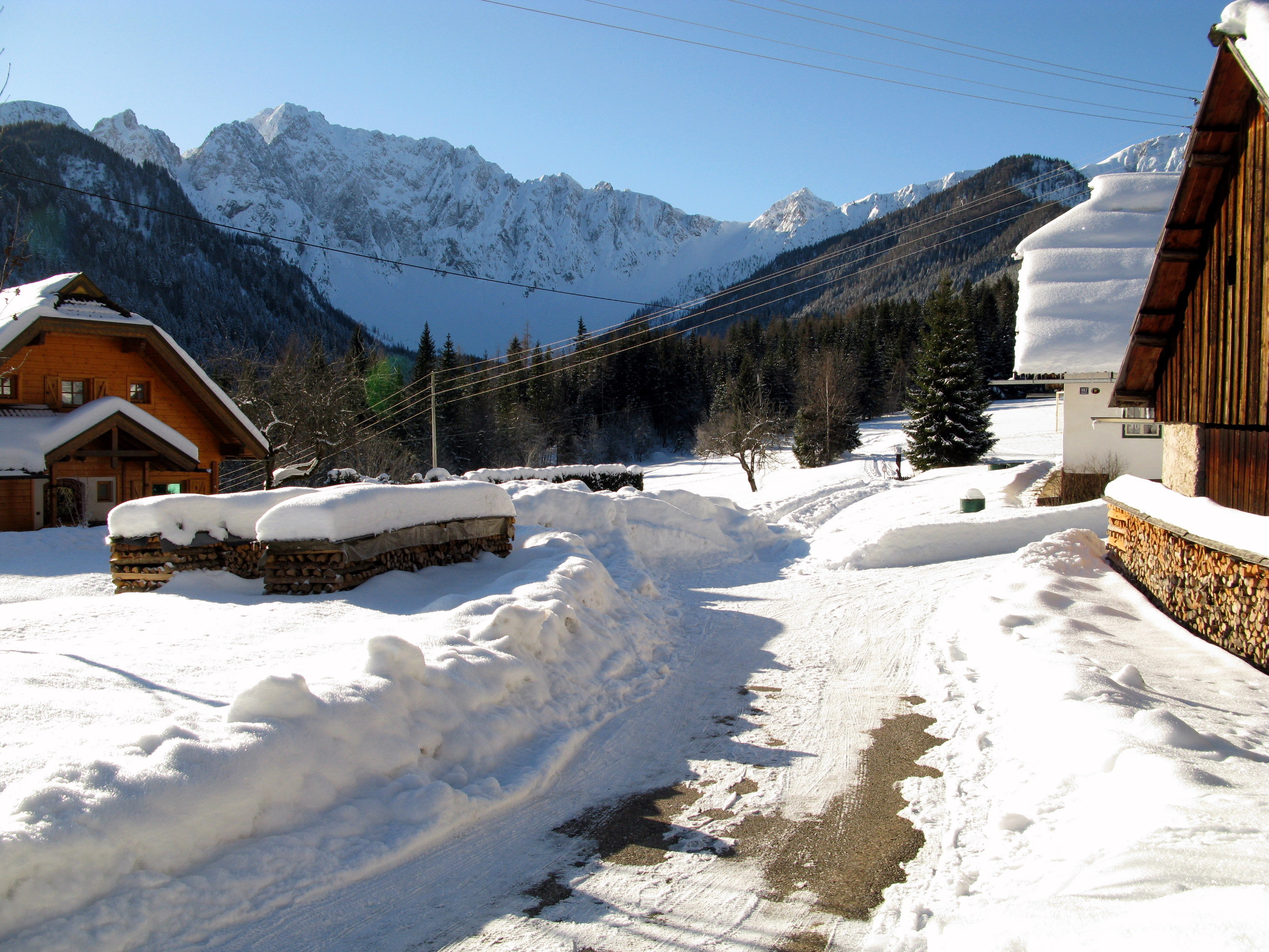 Alpine farm in a valley in the Karawanken near Ferlach / Carinthia / Austria / European Union. ⇒ The same camera position in Sommer 2008.